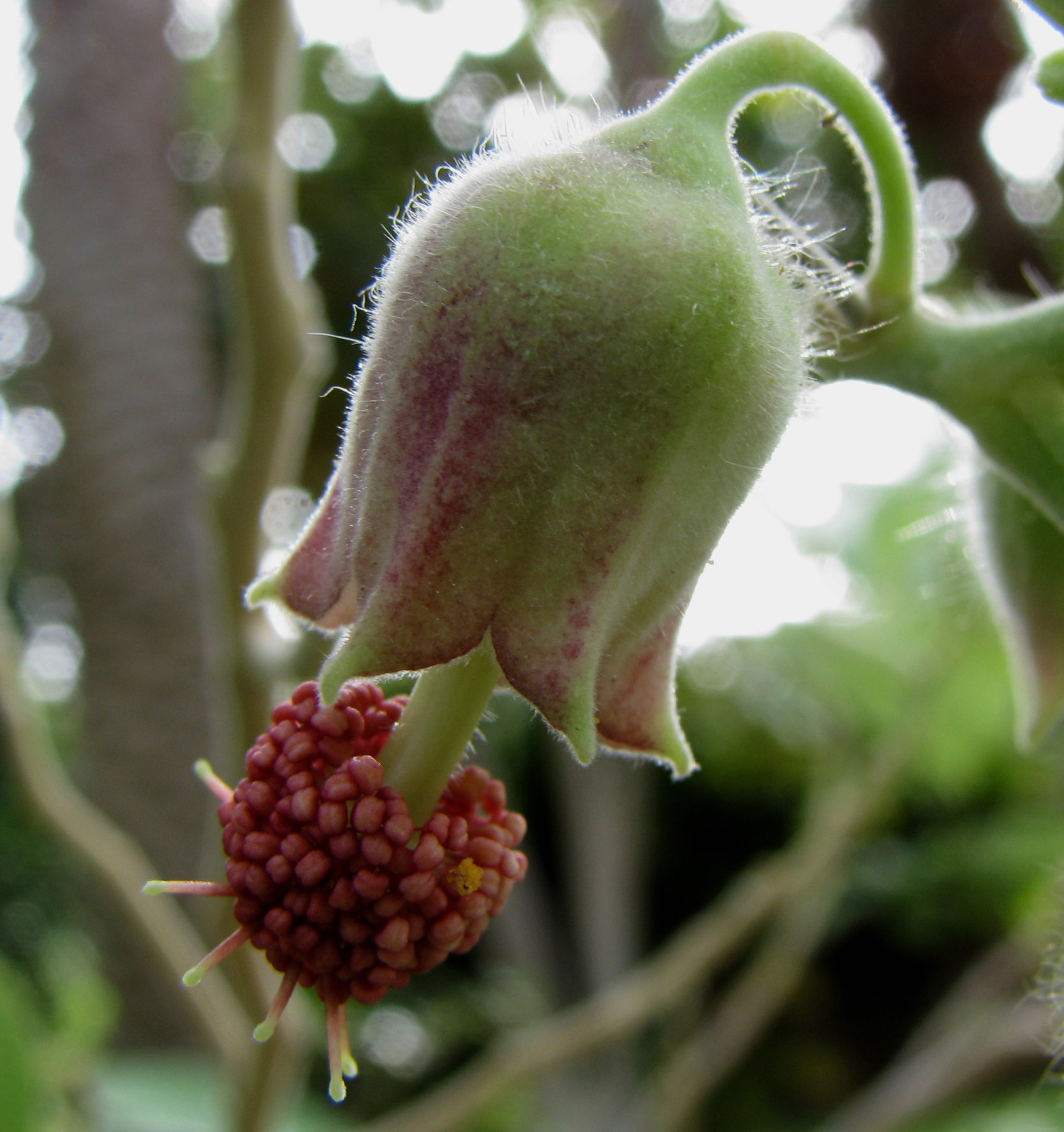 Hidden-petaled abutilon Malvaceae Endemic to the Hawaiian Islands (Lānaʻi only) Endangered Oʻahu (Cultivated) The calyxes of this form have a rosy flush, but the "hidden petals" inside are apple green.